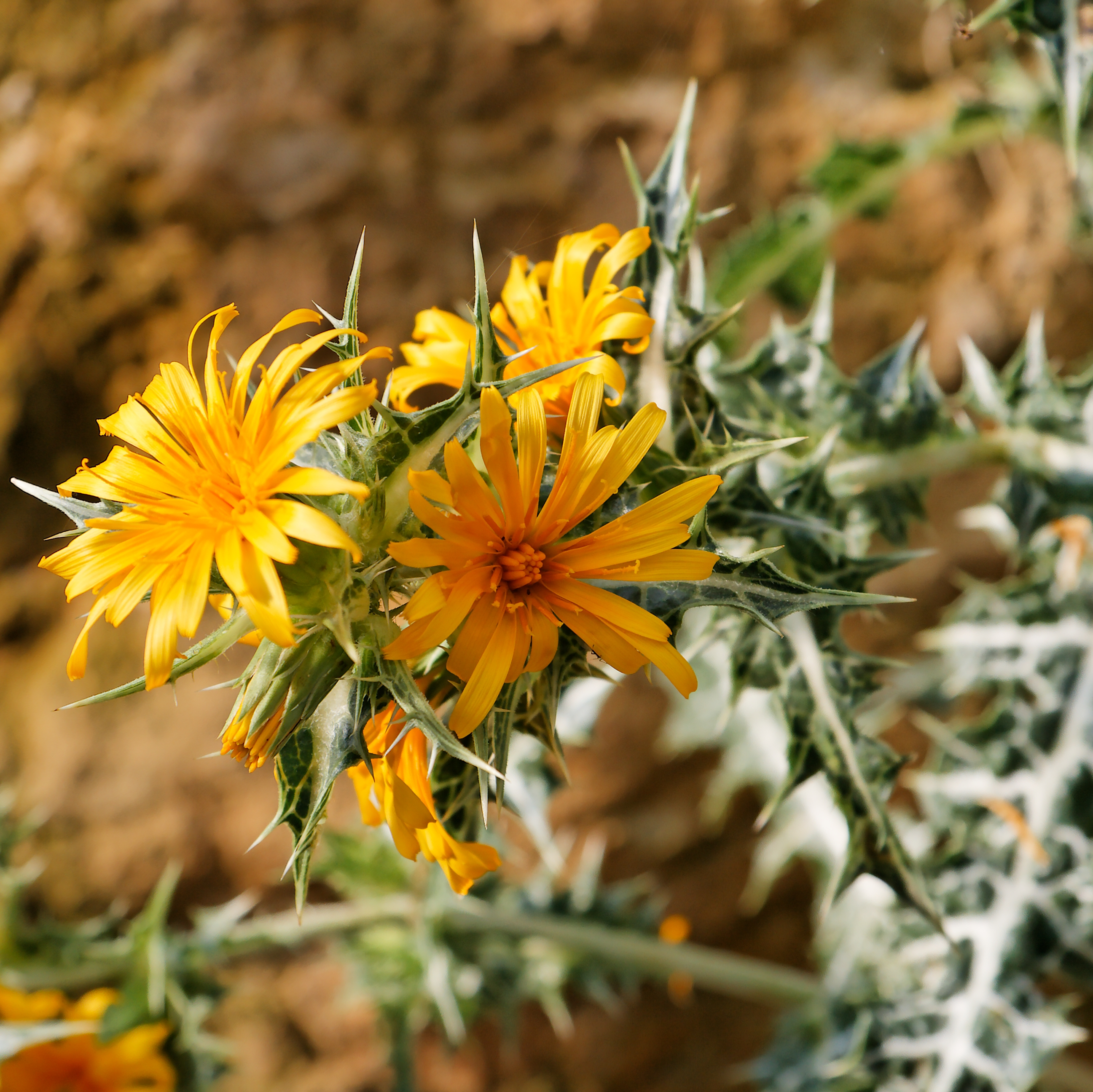 Scolymus hispanicus in Berlin botanical garden